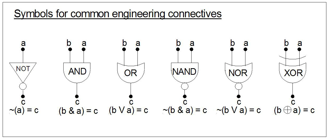 Drawn by wvbailey in Autosketch as .jpg, imported to Adobe Acrobat and exported as .png.